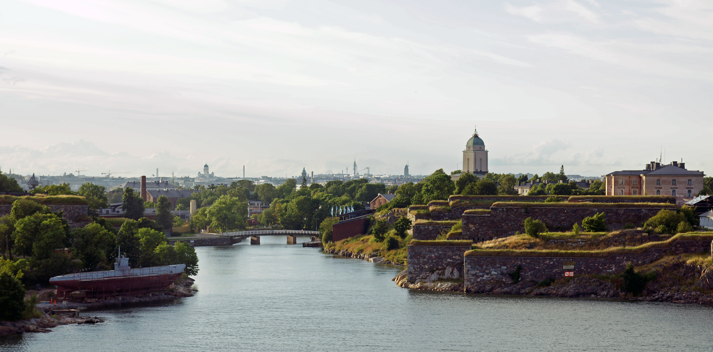 Suomenlinna